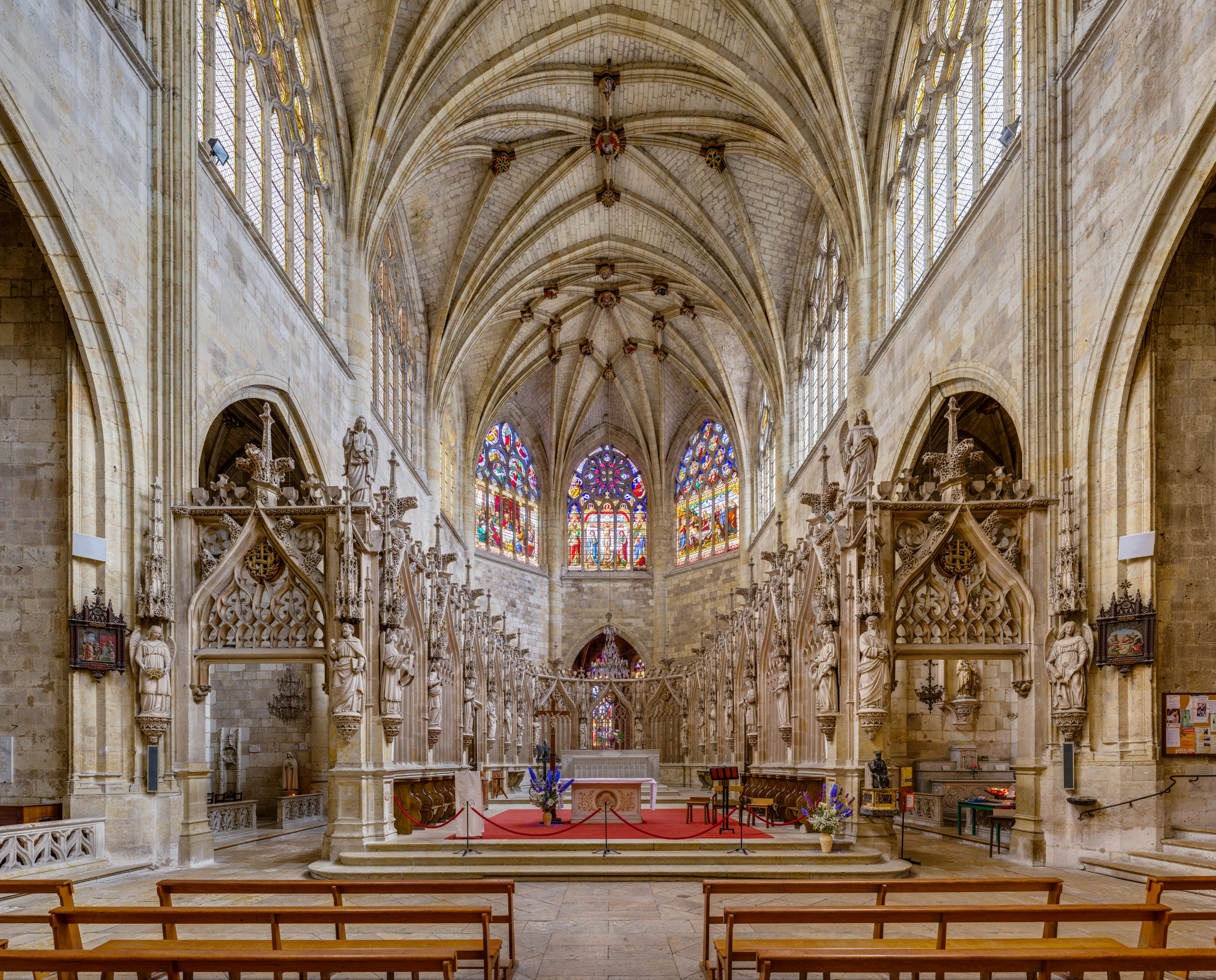 Choir of Condom Cathedral, in Condom, Gers, France.